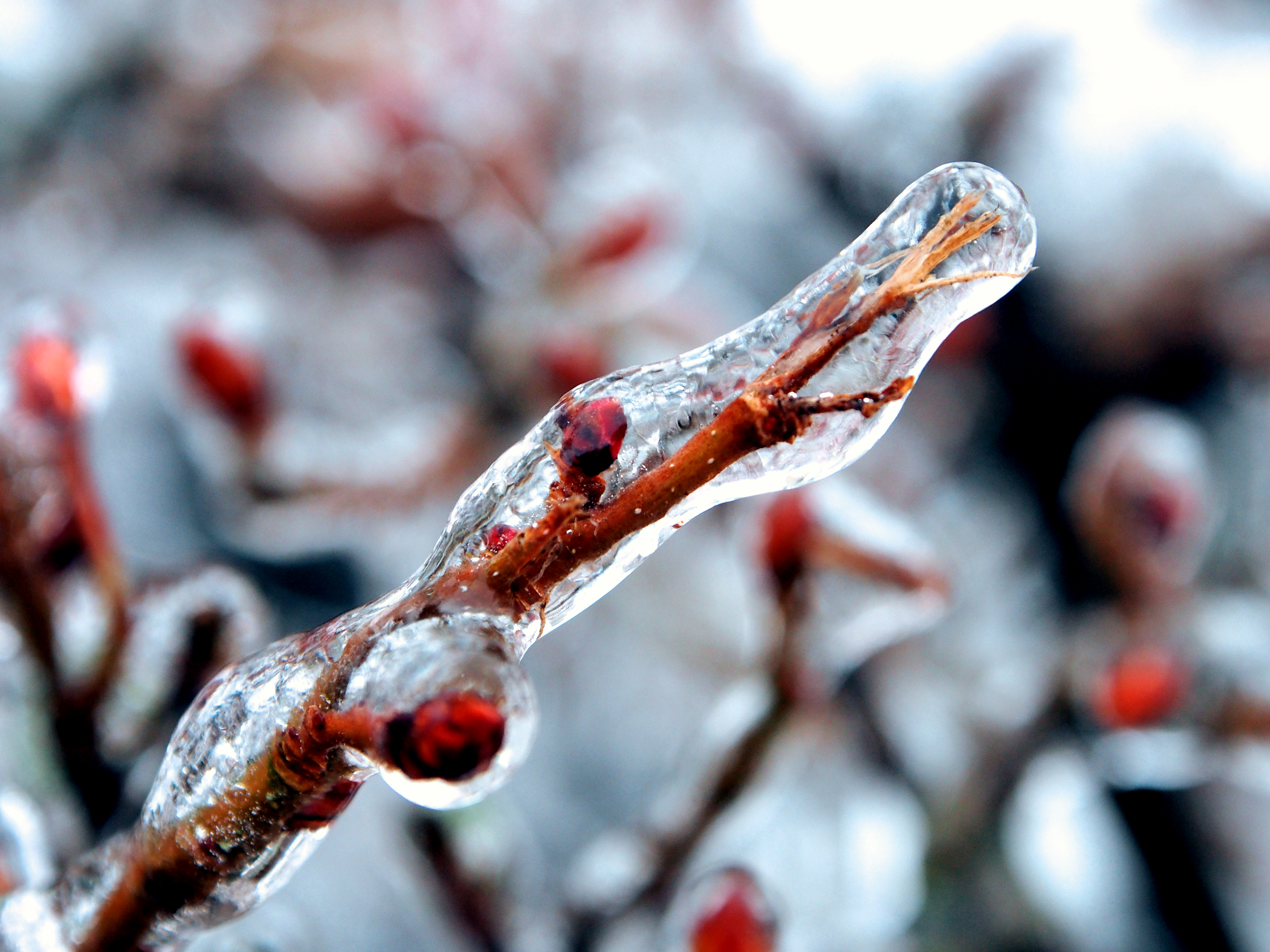 Ice on tree